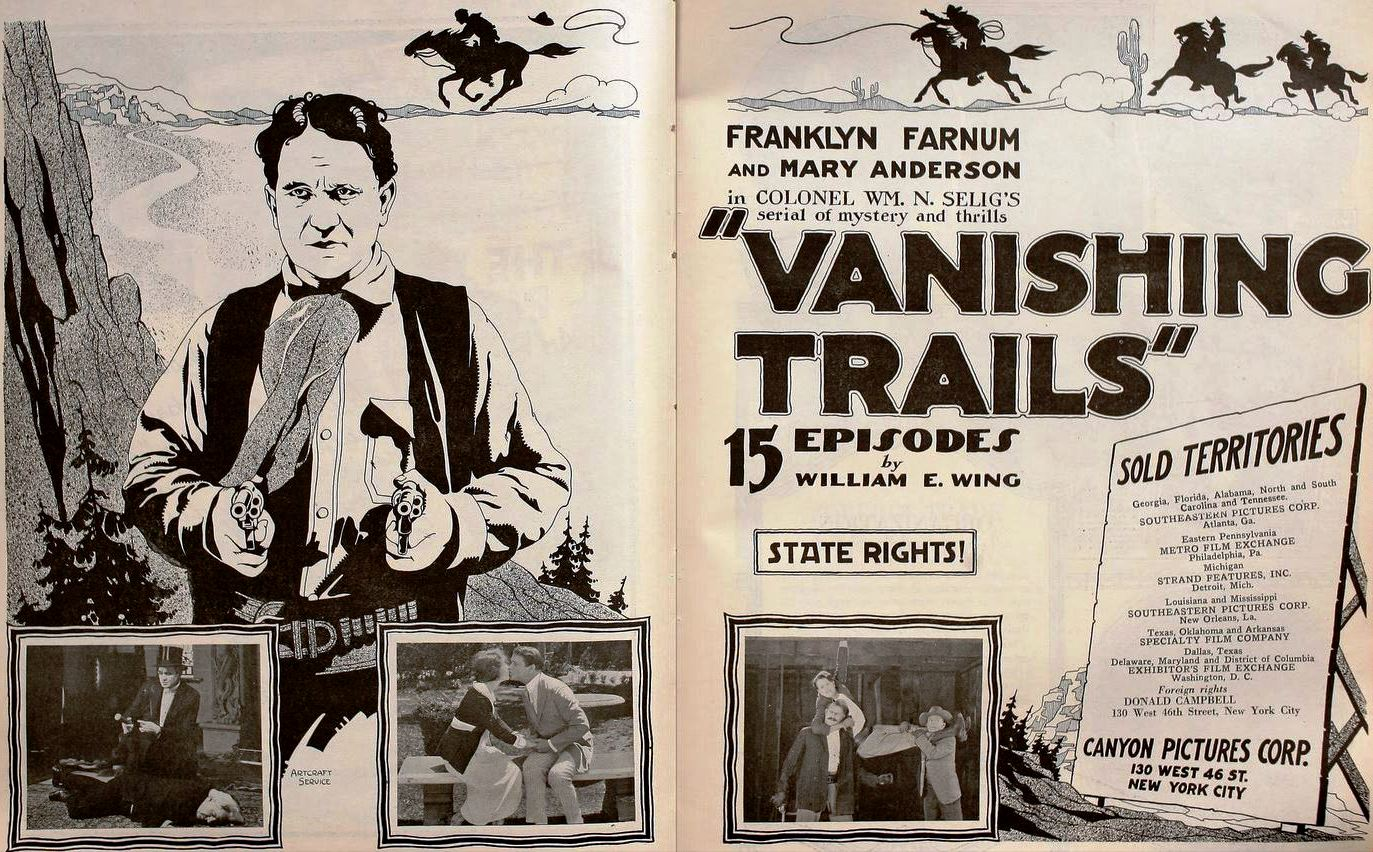 Ad for the American western film serial Vanishing Trails (1920) with Franklyn Farnum and Mary Anderson, pages 4568 and 4569 of the June 5, 1920 Motion Picture News.